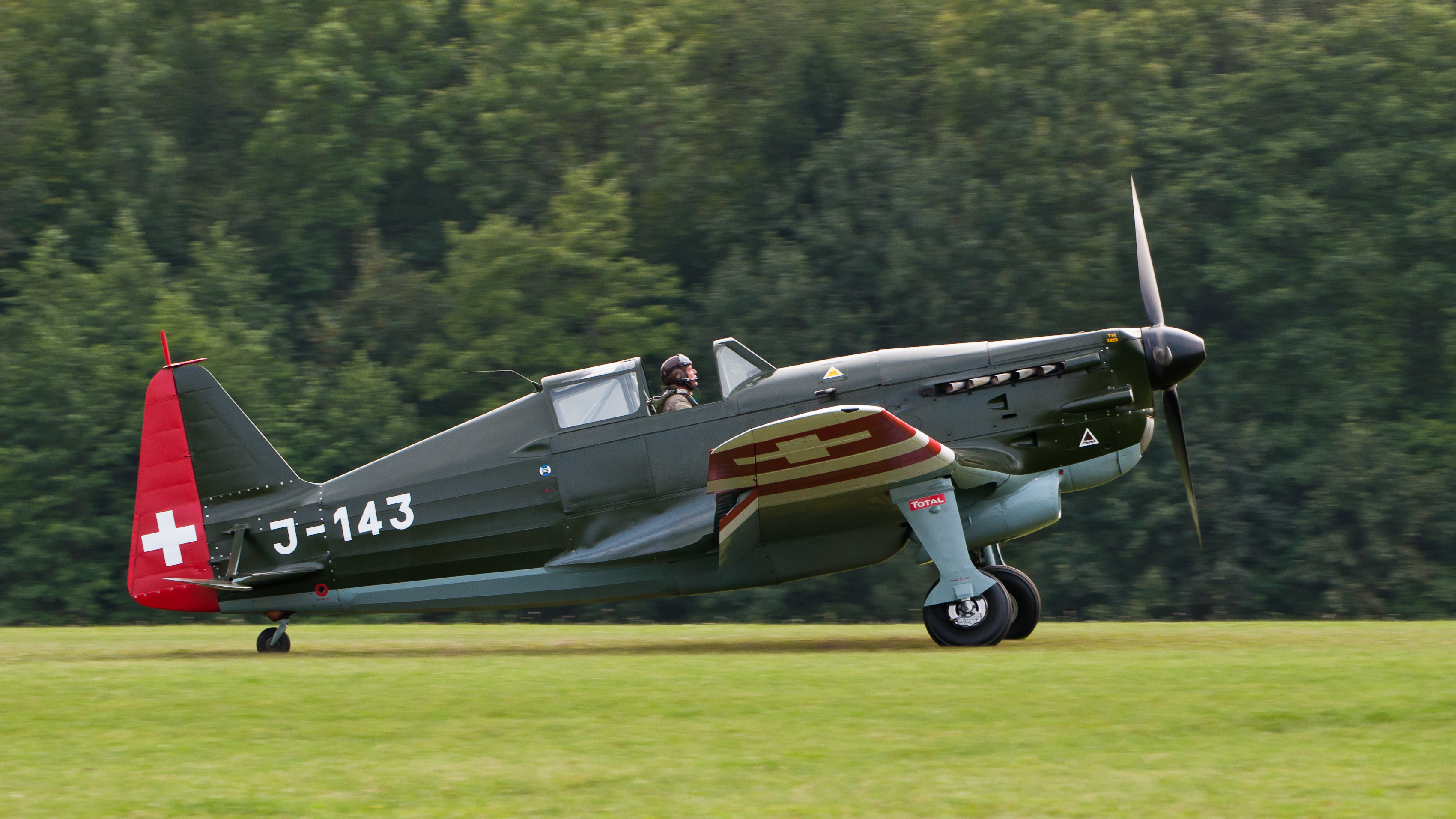 Morane-Saulnier (EKW) D-3801 (MS-412) (reg. HB-RCF (J-143), cn 194, built in 1942). Engine: Hispano-Suiza.